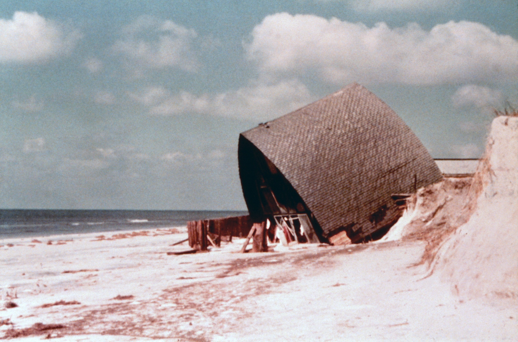 Remains of a house built on a concrete slab home destroyed by Hurricane Eloise